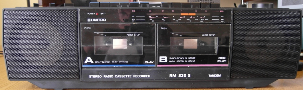 Stereo radiocassette recorder produced by ZWM "UNITRA Lubartów", Poland. It's the last proudct of ZWM.